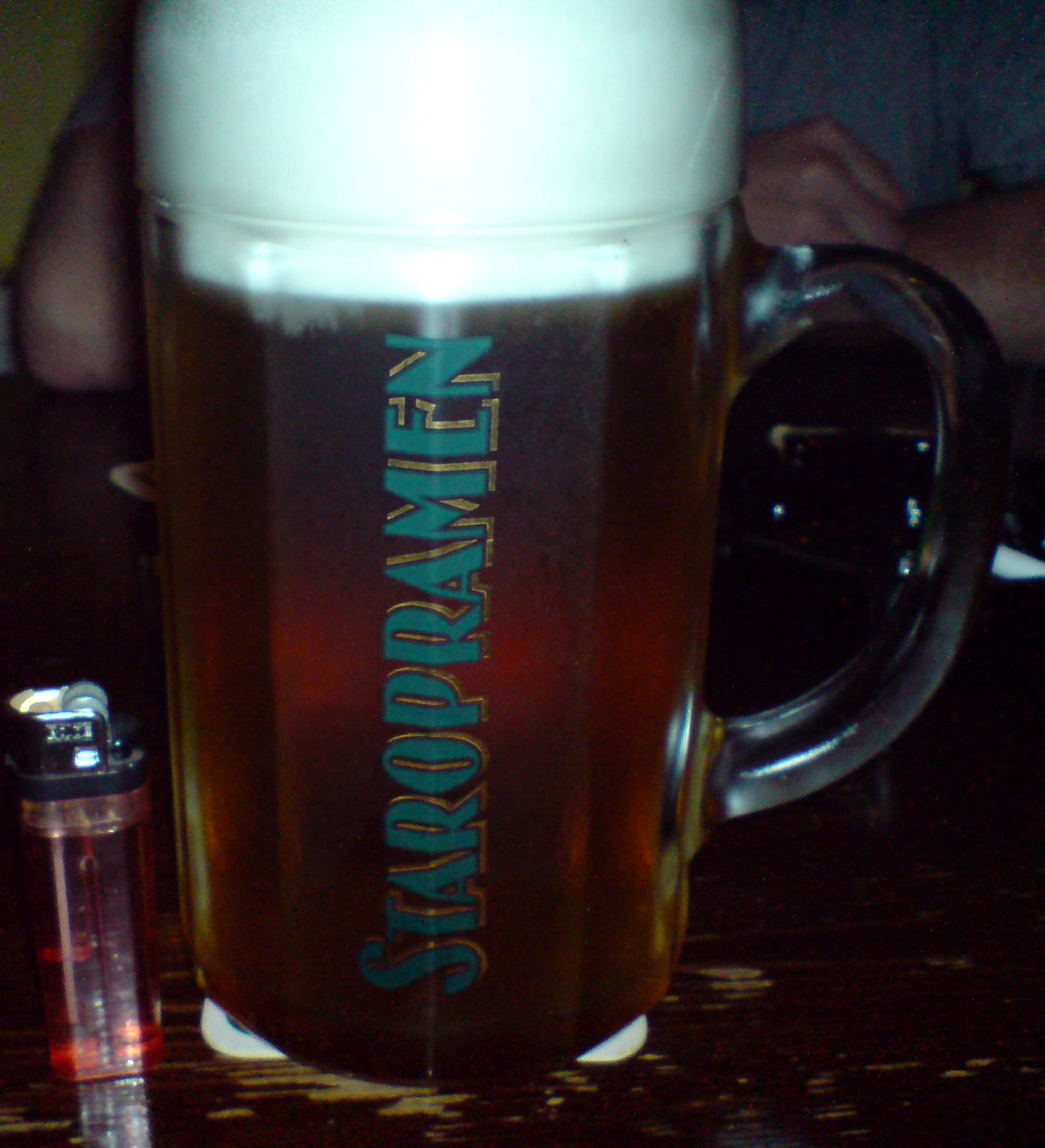 1l beer bottle (on picture is czech beer Staropramen)